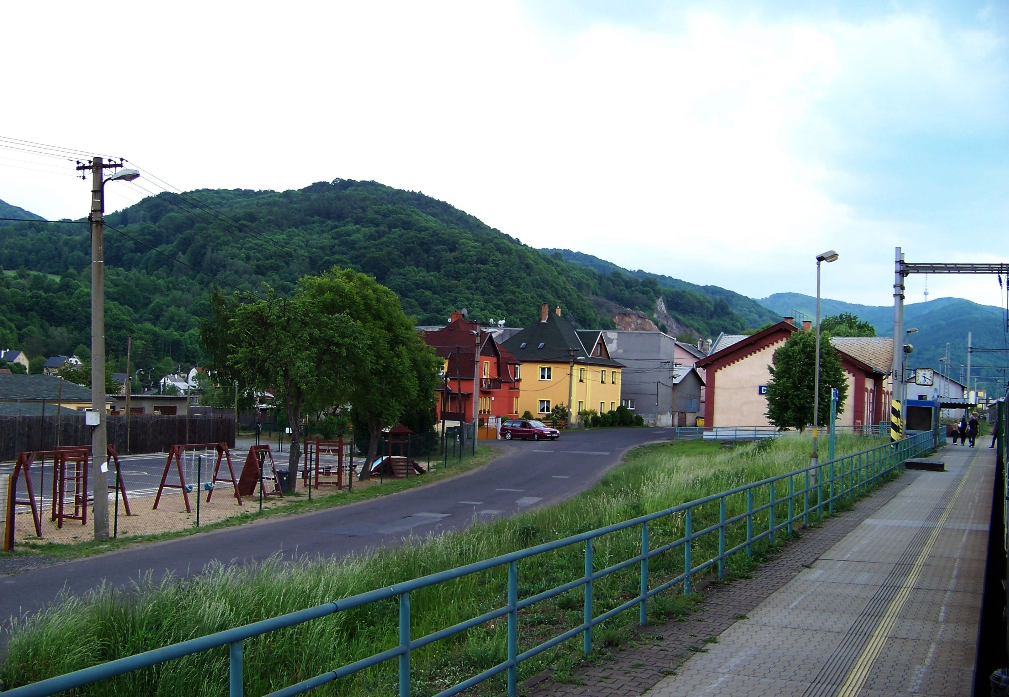 Dobkovice, Děčín District, Ústí nad Labem Region, the Czech Republic. Train stop Dobkovice. - OpenStreetMap(Info)